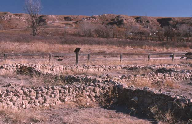 Remains of the indian pueblo "El Cuartelejo" in Scott County, Kansas, USA